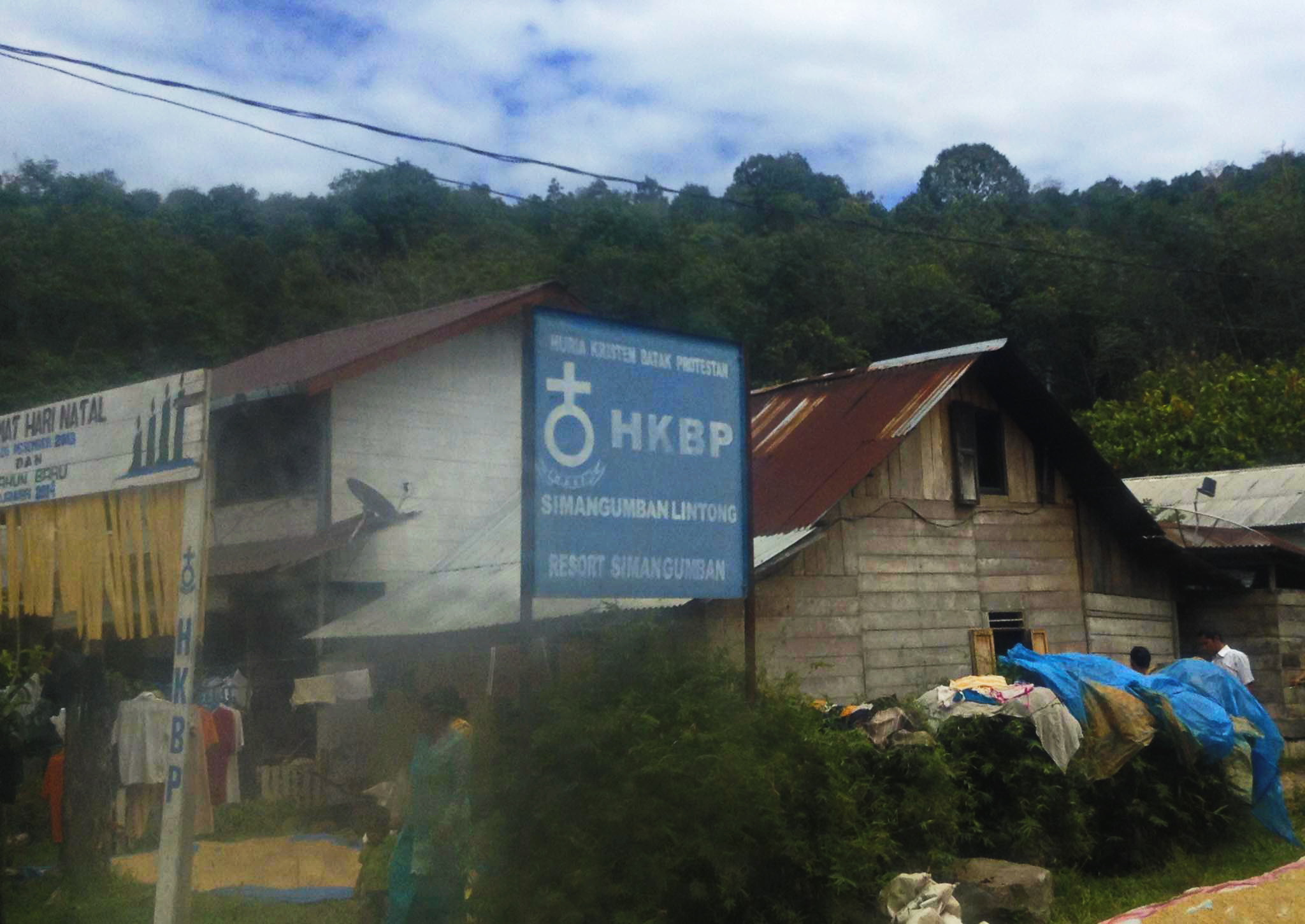 HKBP Simangumban Lintong, church in Simangumban, North Tapanuli